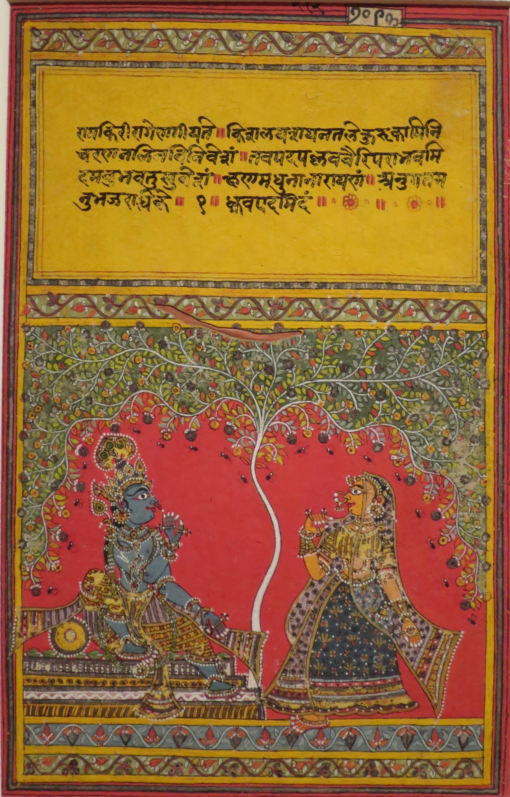 '.Illustration for the Gita Govinda, watercolor on paper from India, 19th century, Honolulu Museum of Art, accession 10799.1